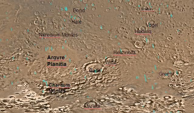 Map of Argyre quadrangle with labels. The small, colored rectangles represent image footprints for the narrow angle camera on the Mars Global Surveyor. Some are about 1 mile wide, the otheers are about 2 miles wide. The map was made by the U.S. Geological survey for NASA.